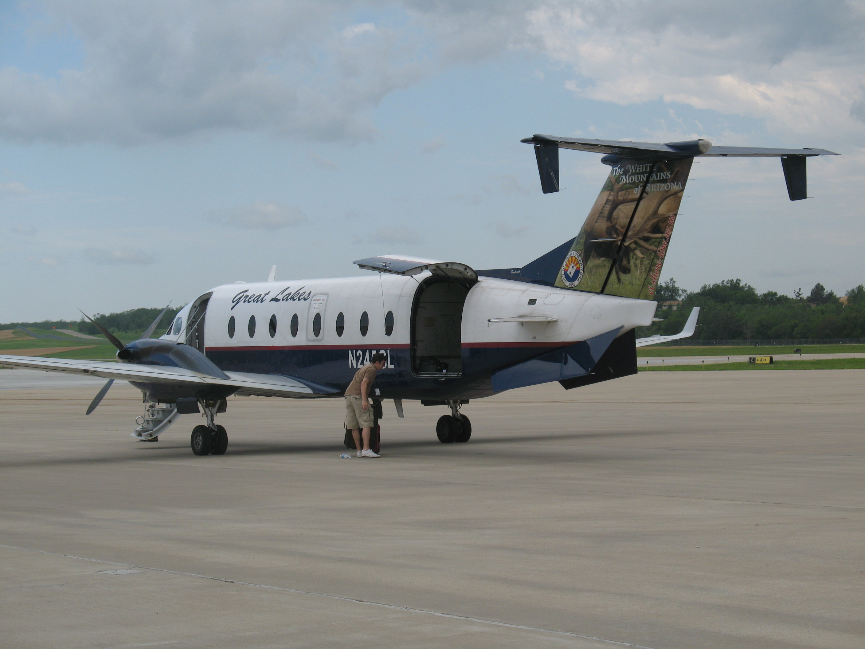 Great Lakes Airlines Beechcraft B-1900D turboprop at Manhattan Regional Airport in Manhattan, KS